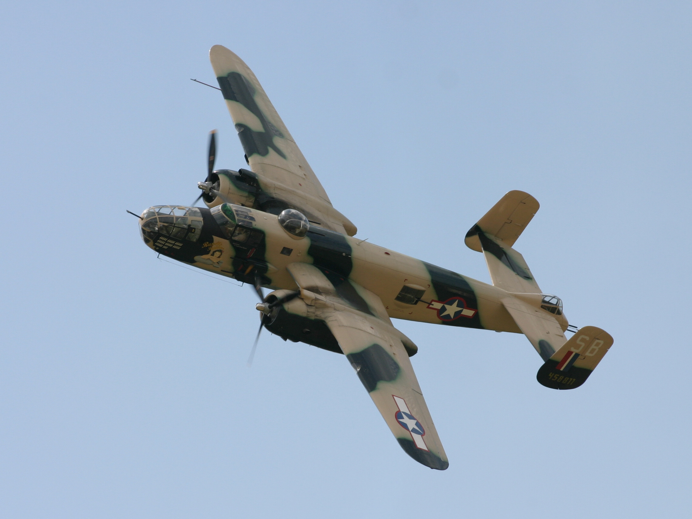 North American B-25 Mitchell during International Air Show Góraszka 2007